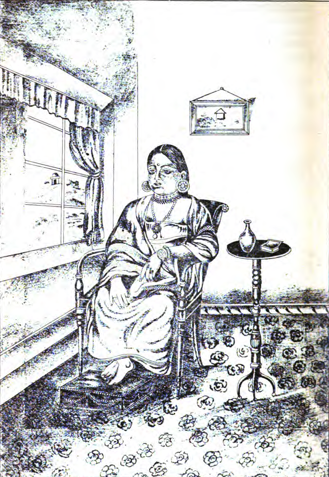 Princess Rugmini Bhye